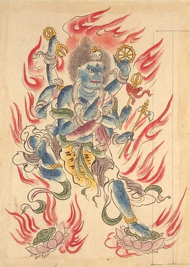 A Buddhism deity Gundari.